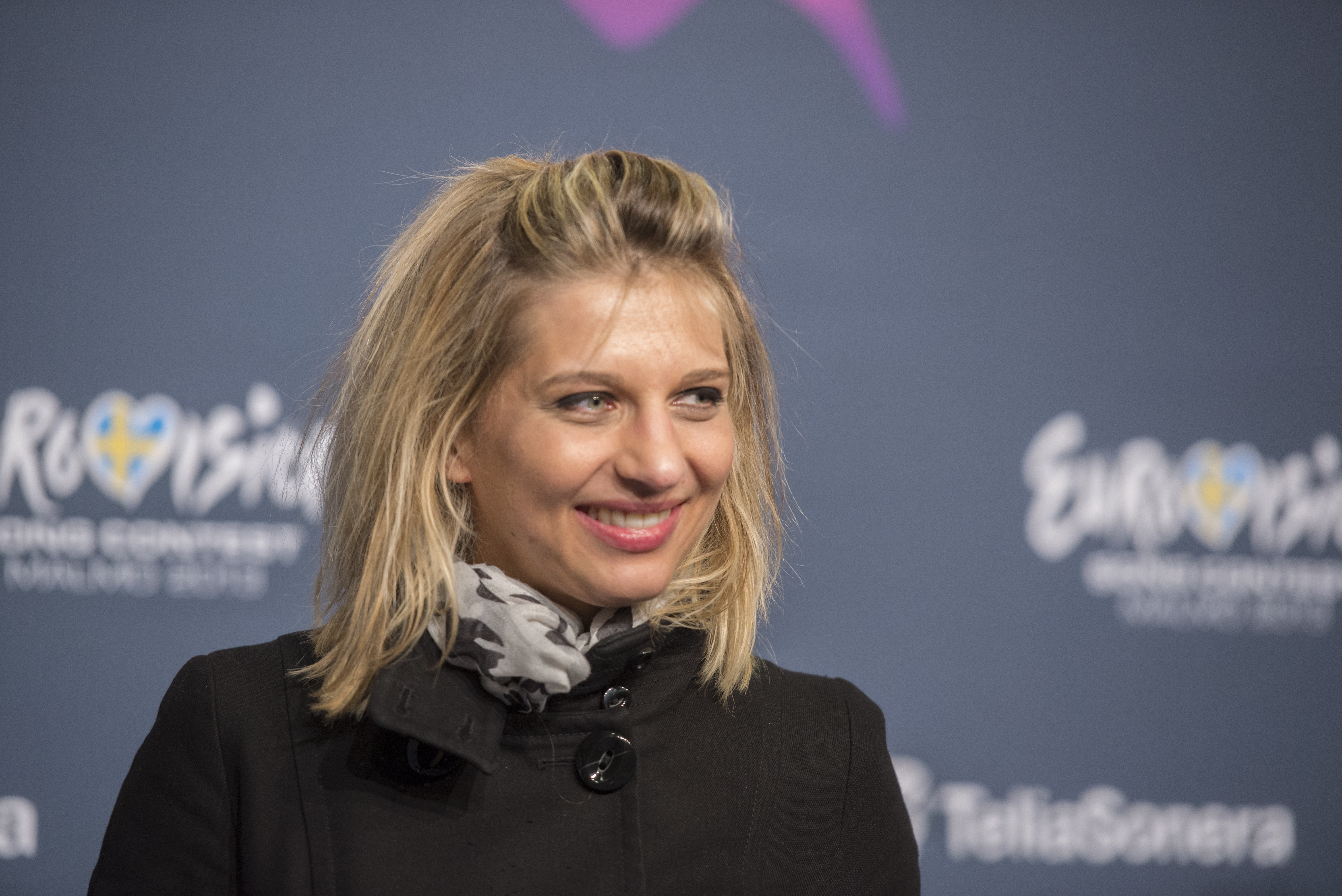 Amandine Bourgeois at a press conference during the Eurovision Song Contest 2013 in Malmö. (Help translate this text)